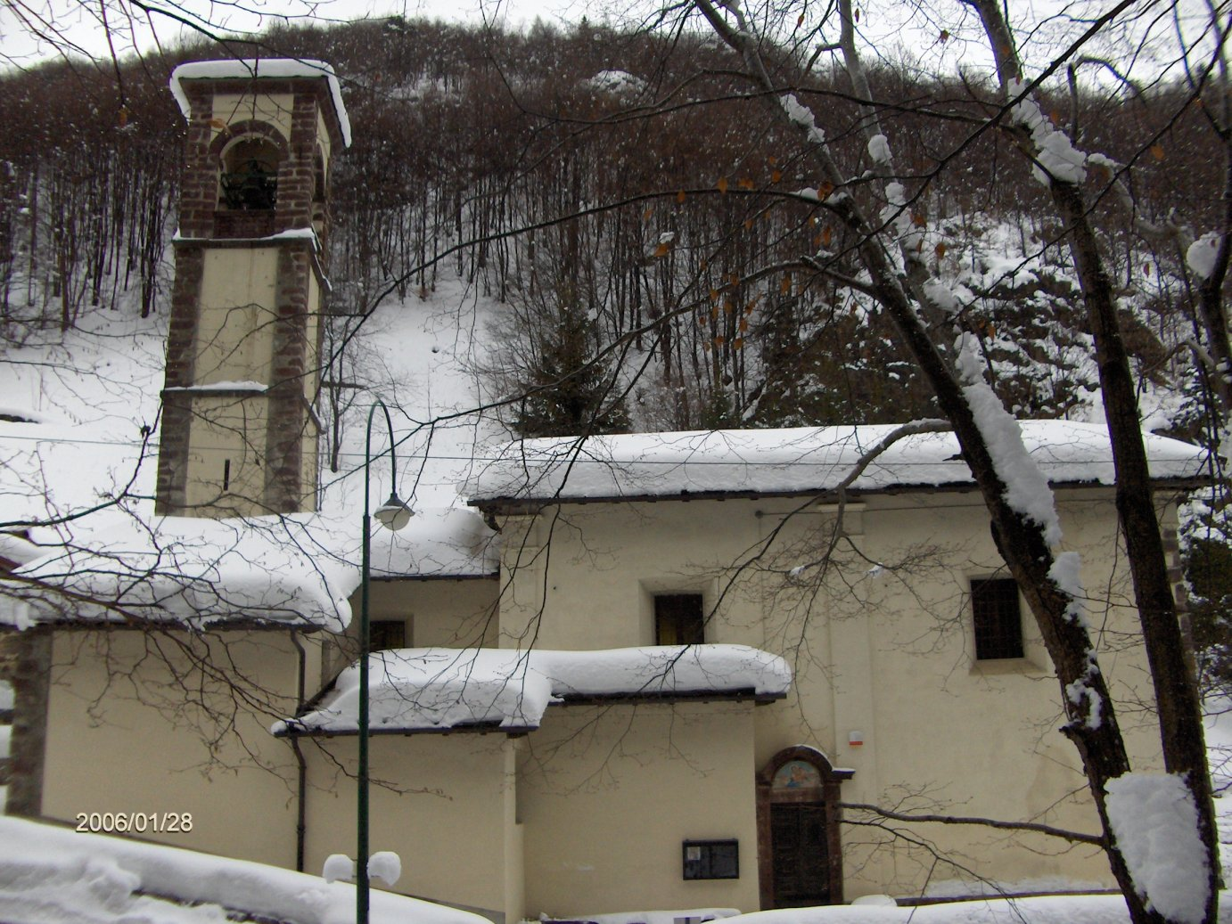 Ornica (BG), Lombardy, Italy - Madonna del Frassino